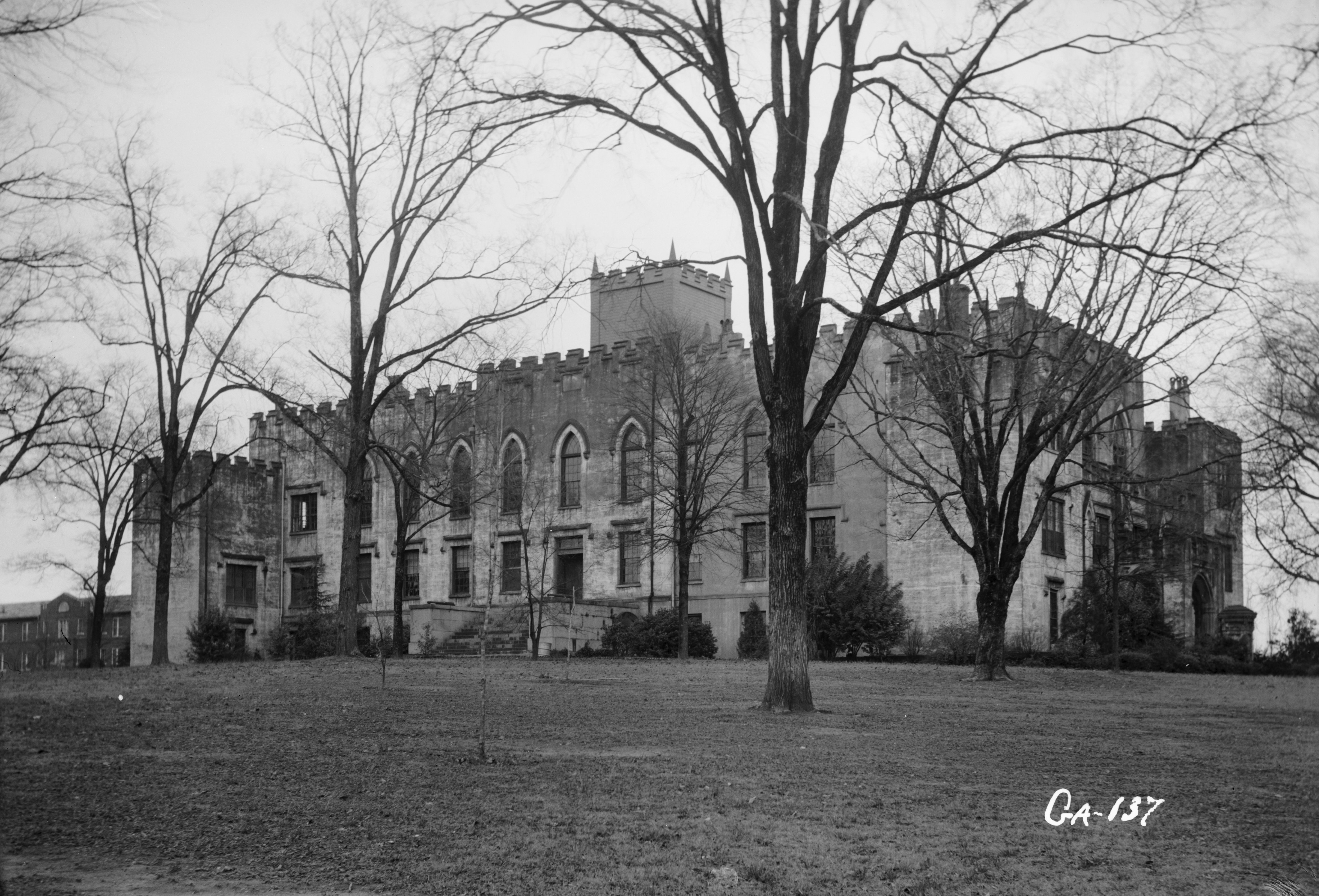 Old State Capitol, Milledgeville, Baldwin County, GA - General view.